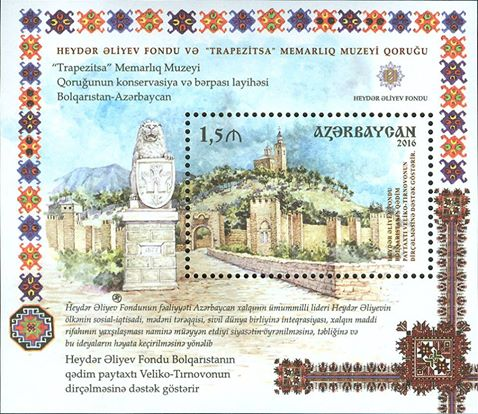 22.11.2016 - Architectural historical reserve “Trapezitsa”. Azerbaijan - Bulgaria joint issue. N 1281 – 1,5 manat. The stamp is dedicated to preservation and renewal of architectural museum complex "Trapezitsa" located in Great Tirniv (Velikiy Tirniv), Bulgary. The entire scope of work is financially supported by Heydar Aliyev Foundation, Azerbaijan.